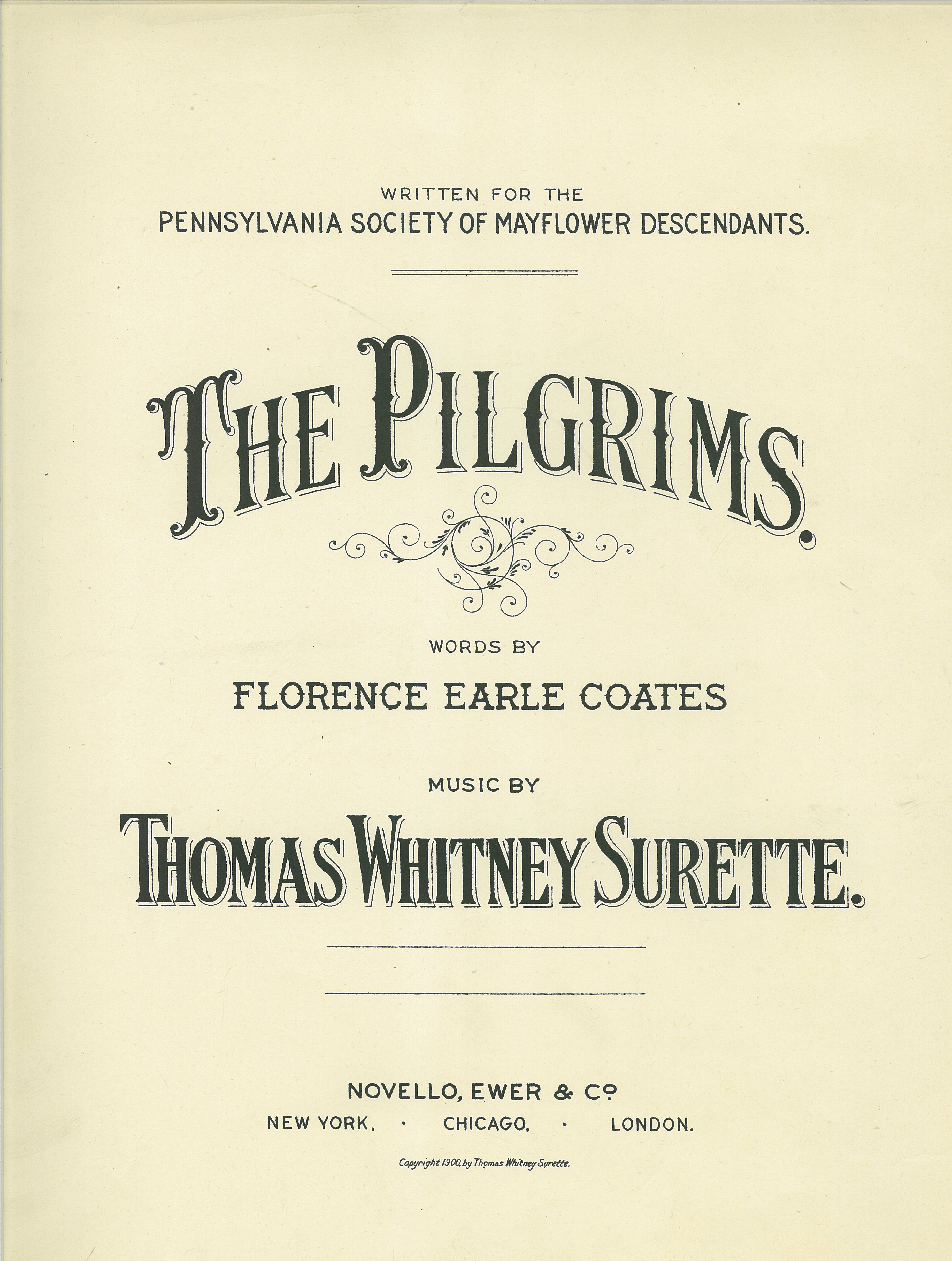 Cover of The Pilgrims. "Hymn of the Society of Mayflower Descendants in the State of Pennsylvania." Words by Florence Earle Coates; music by Thomas Whitney Surette. New York : Novello, Ewer & Co. (1900) Florence Earle Coates was the 10th founding member of the SMDPA (255th member of the General Society of Mayflower Descendants) on July 1, 1896. Permission for this image to be used and placed into the public domain was granted by the Governor of the Society of Mayflower Descendants in the Commonwealth of Pennsylvania, Mr. Norman Robinson, on 29 January 2010.